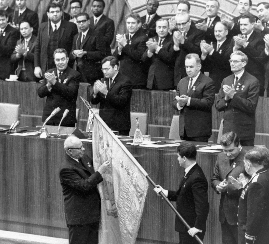 “Awarding the Order of Lenin”. Nikolai Podgorny (left, bottom), President of the Presidium of the USSR Supreme Soviet, conferring the Order of the October Revolution upon the all-Union Young Communist League .